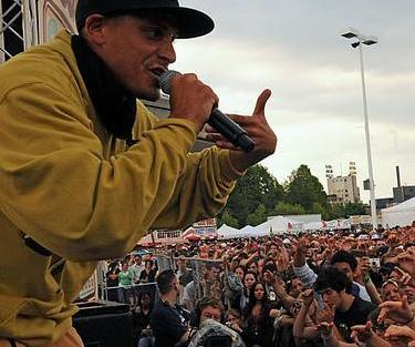 concert photo